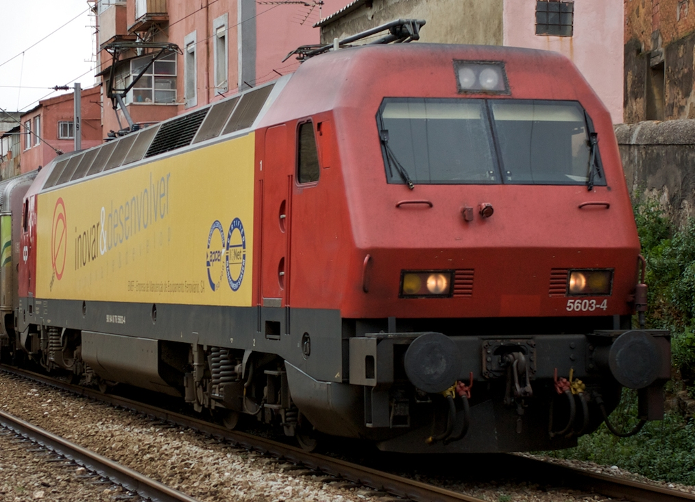 Portuguese Railways 5600 Series locomotive in Lisbon, with a EMEF advertising on the sides.